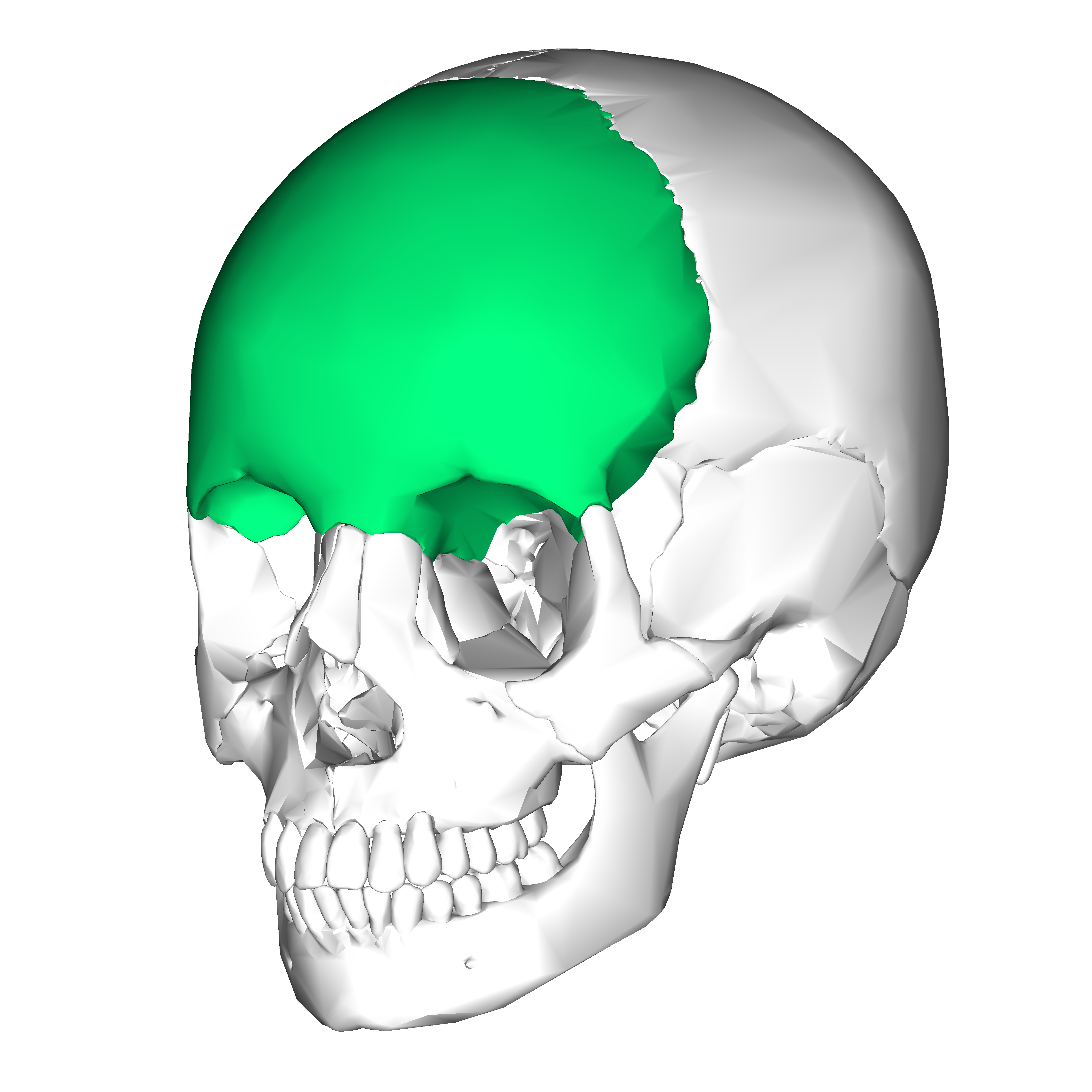 Frontal bone (shown in green).